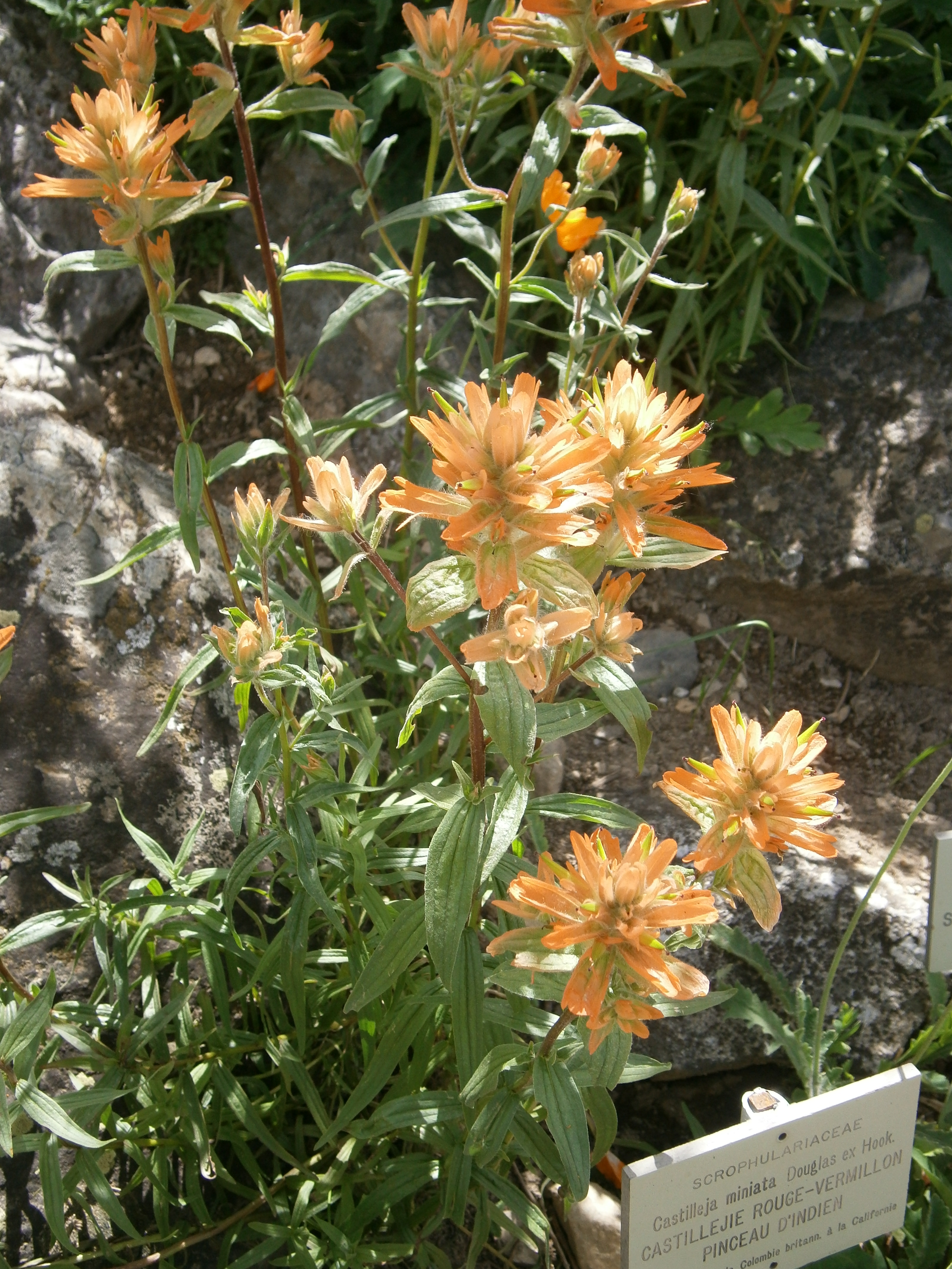 Castilleja miniata in the Jardin Botanique Alpin du Lautaret